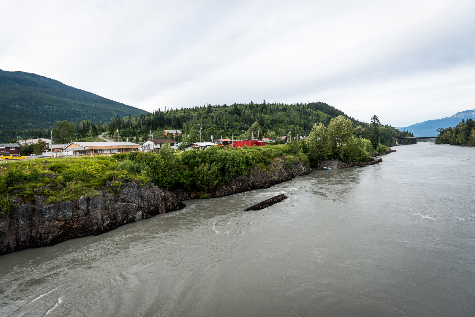 Nass River Valley